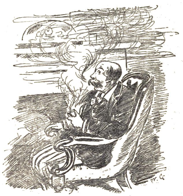 jpg of image on print page 128 of File:Diary of a Nobody.djvu